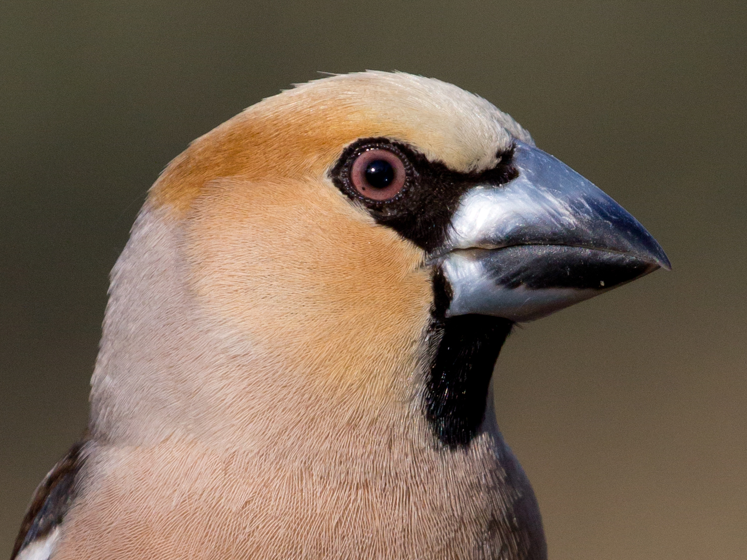 Hawfinch (Coccothraustes coccothraustes) in Cantalejo, Castile and León, Spain.